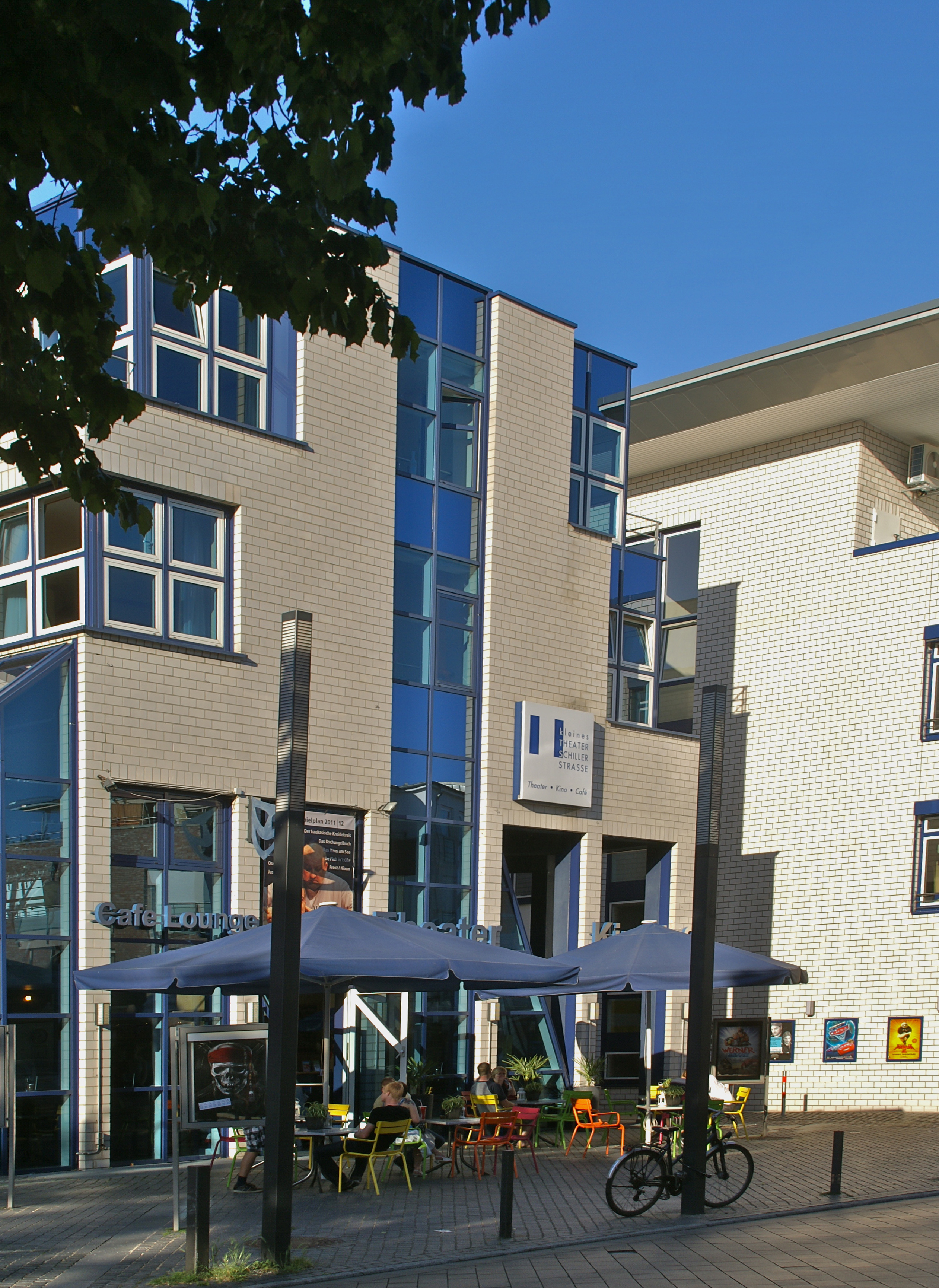 Geesthacht, Germany: Little theatre Schiller Street